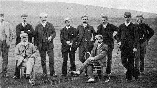 Professional golfers gathered for the October 11, 1894 "New Luffness Competition". Back row (L-R) Ben Campbell, Willie Auchterlonie, Andrew Kirkaldy, Davie Grant, George Sayers, Philip Wynne, Henry "Harry" Gullane, George Shepherd. Front row seated left is Old Tom Morris and seated right is Ben Sayers.